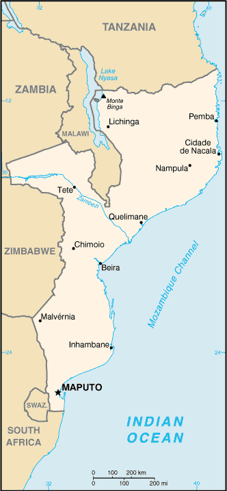 Map of Mozambique, showing major towns.